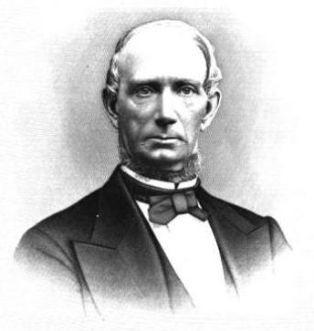 George F. Whitworth, Presbyterian minister, president of the University of Washington from 1865-66 and 1874-76, and was the founder of Whitworth College (now Whitworth University) in 1890.